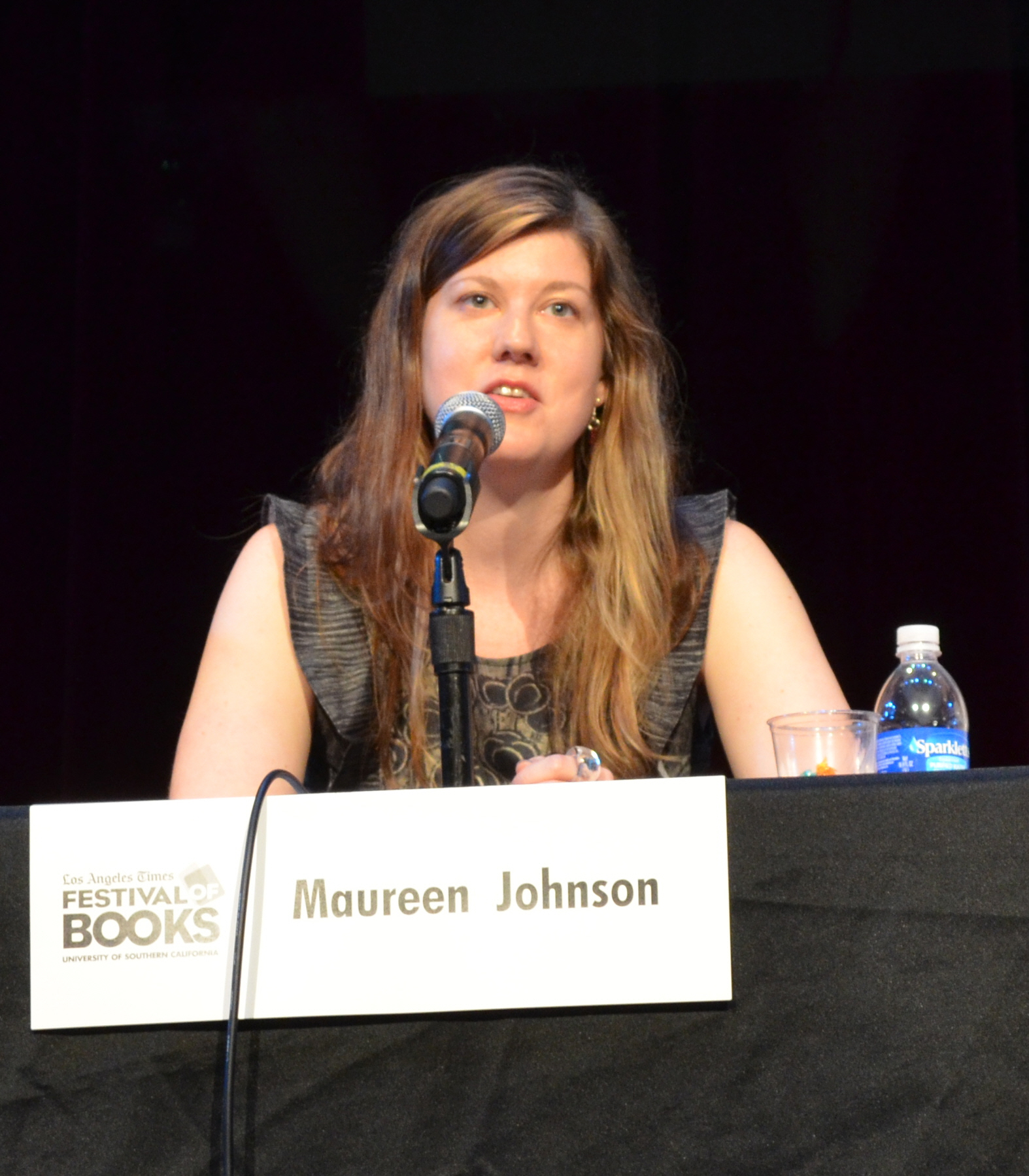 Maureen Johnson at LA Times Festival of Books 2012